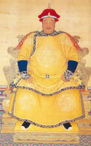 Emperor Hong Taiji (1592-1643) of the Qing Dynasty